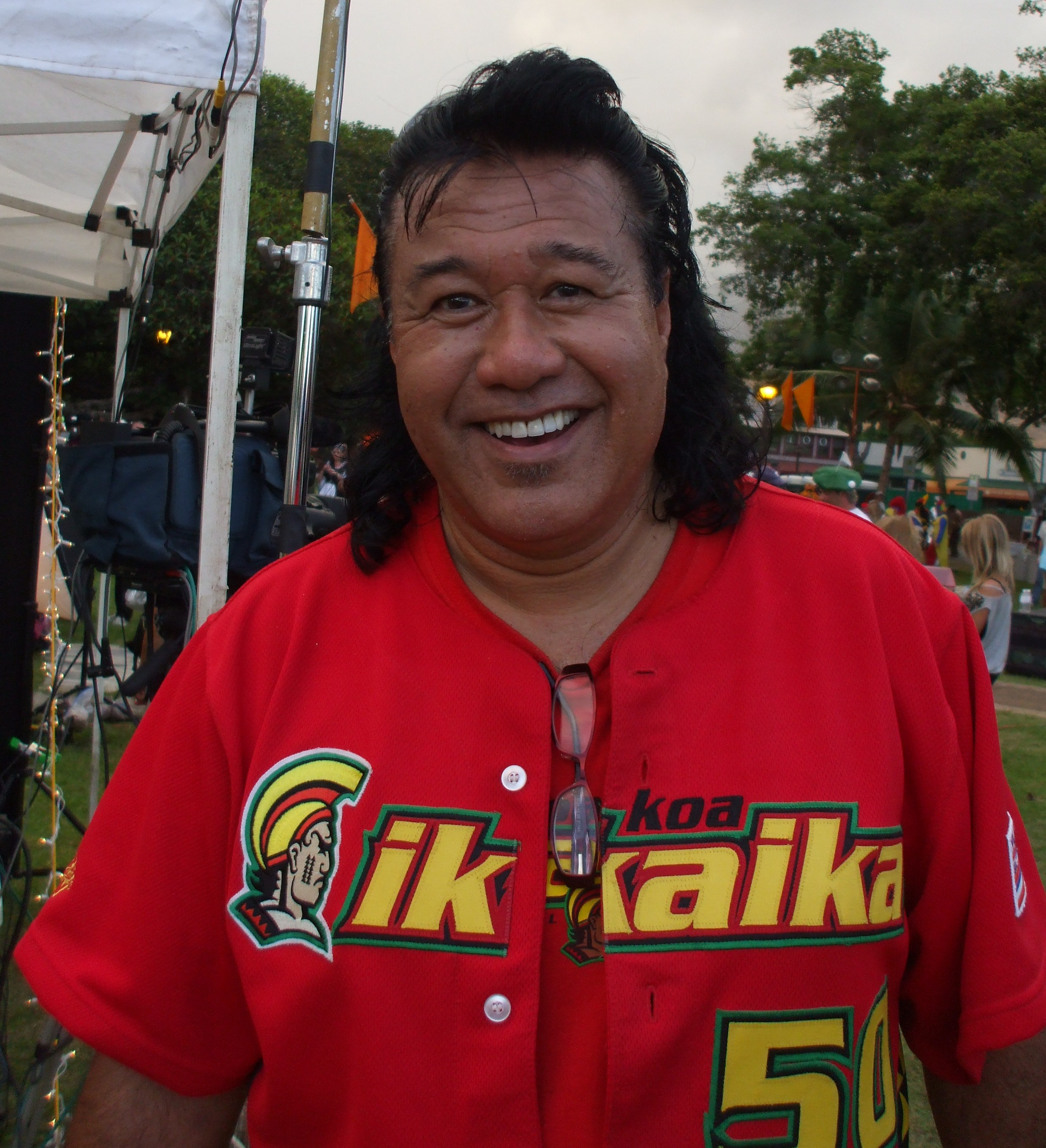 Branscombe Richmond at the 2011 Halloween Celebrations in Lahaina, Maui.